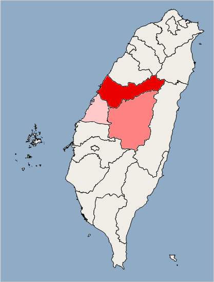 Administration map of Taichung Court